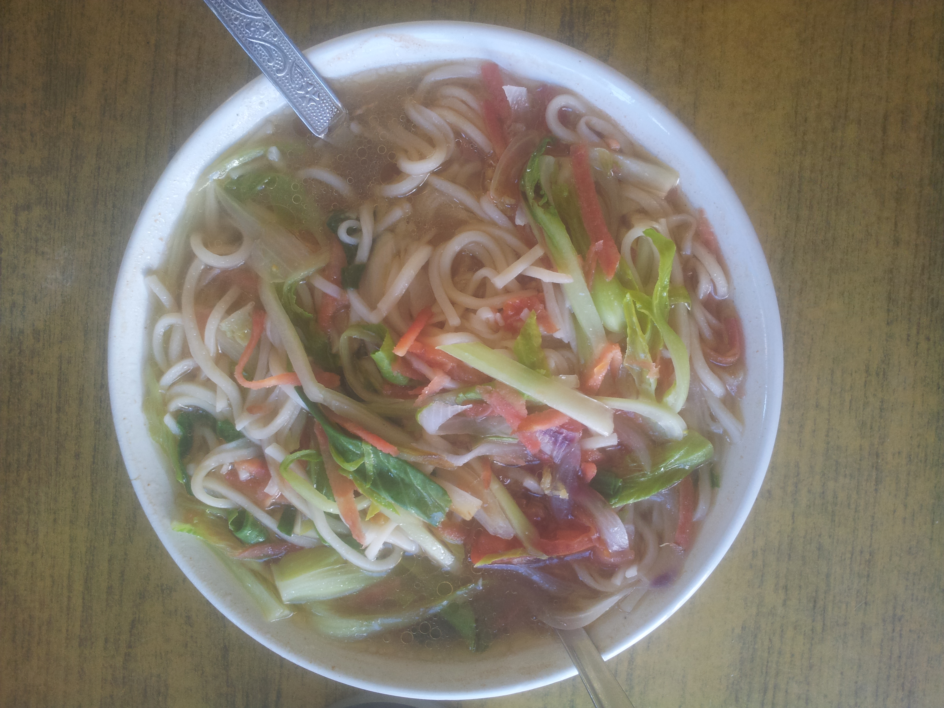 Tibetan and Nepali cuisine. Noodle soup.